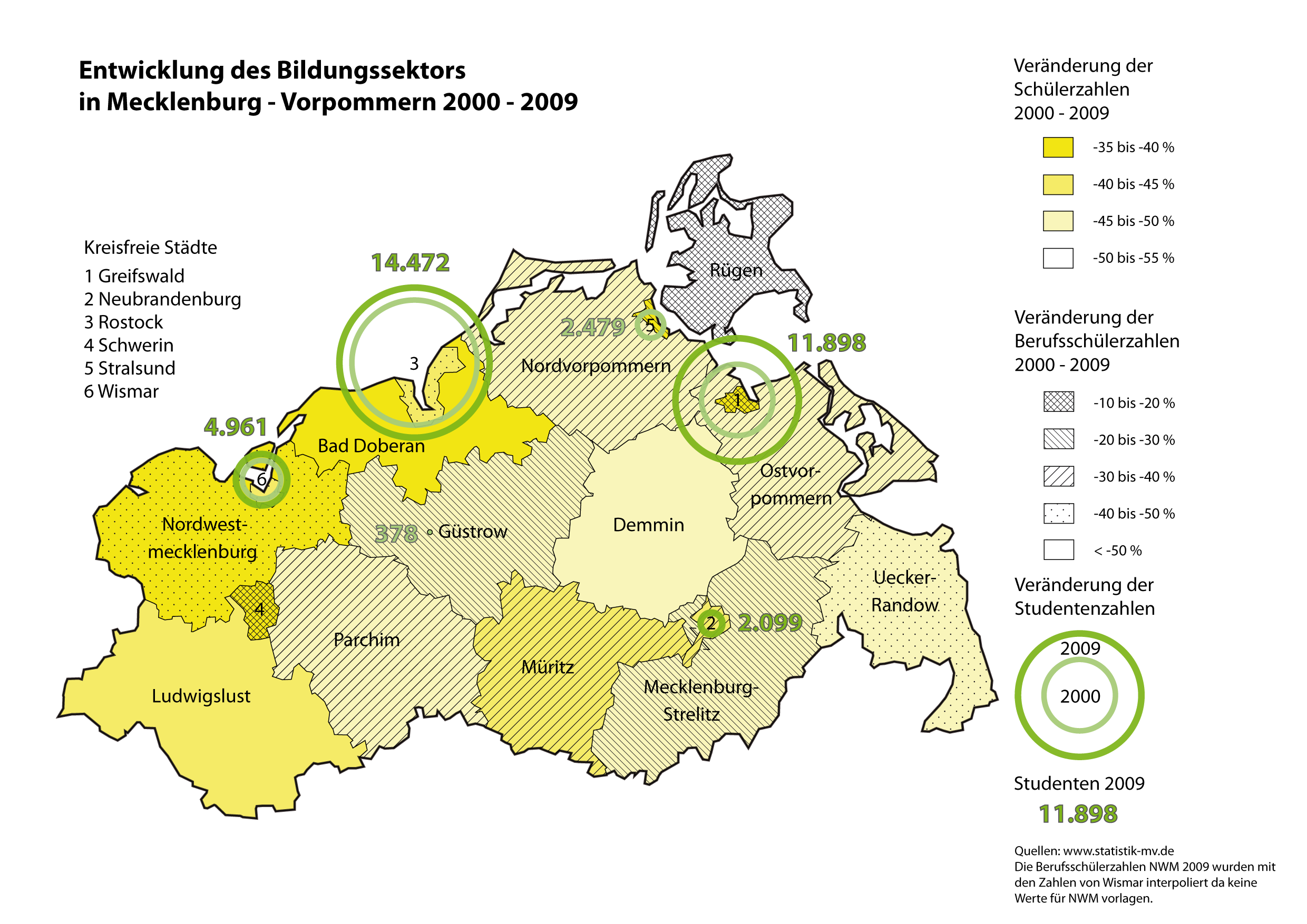 Education level in MV